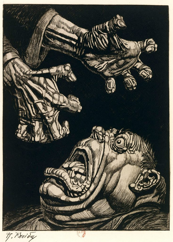 Illustration from O. Mirbeau, Le Jardin des supplices, Paris: Javal et Bourdeaux